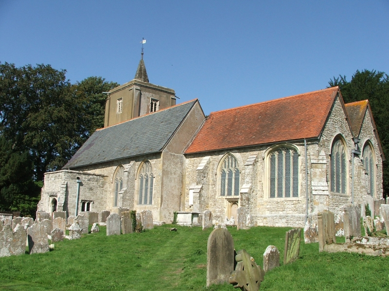 St Michael's parish church, East Peckham, Kent, seen from the southeast